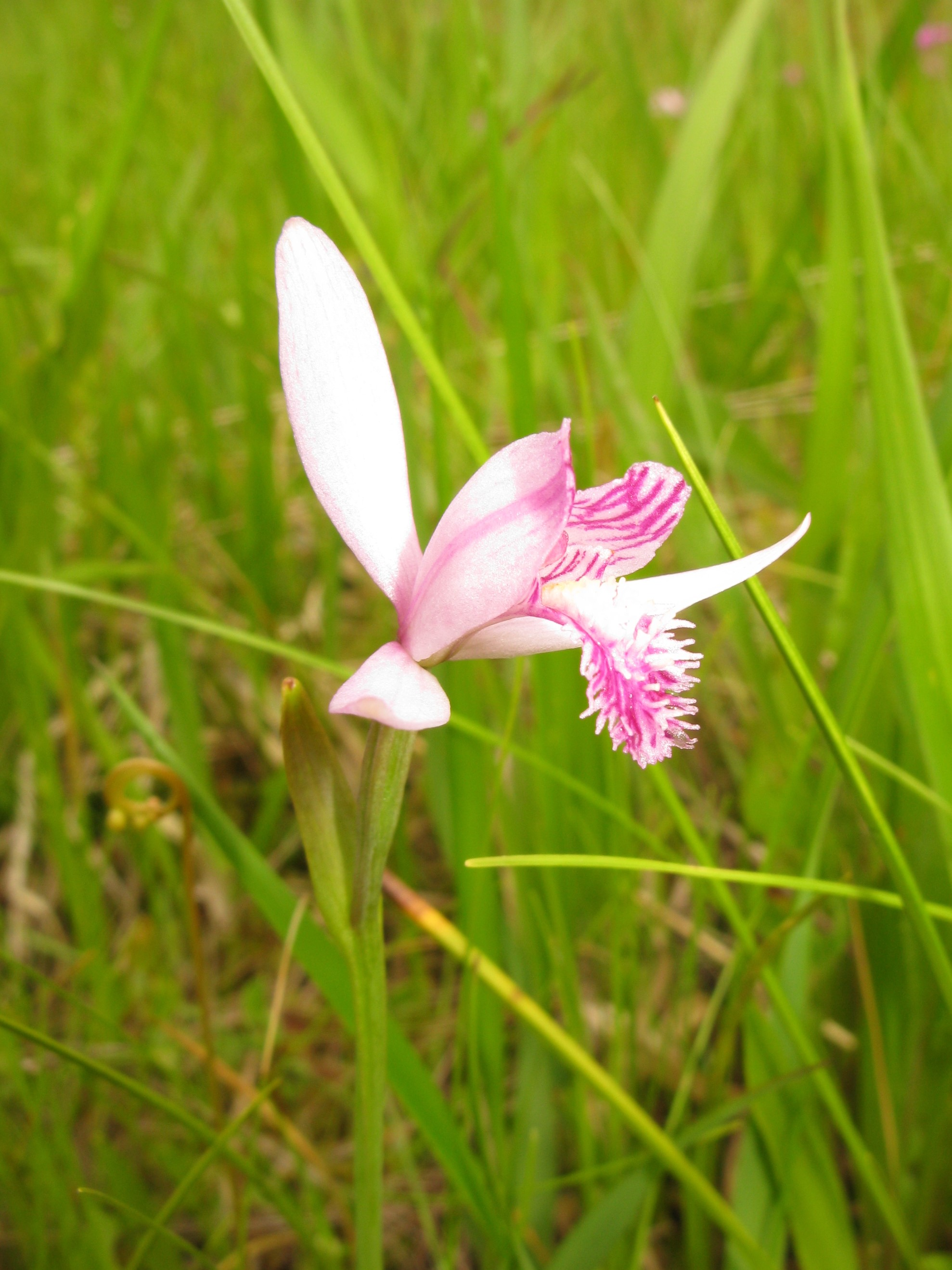 Pogonia japonica, Aizu area, Fukushima pref., Japan